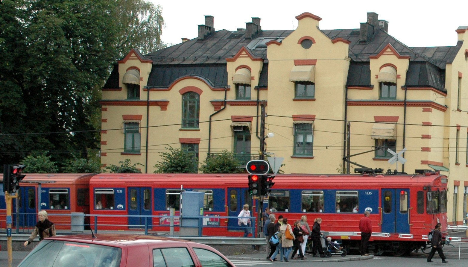 The T1300-type-wagons to Frognerseteren crossing a street at Vinderen station, Oslo, Norway. Crop of the commons file Image:Vindern T-bane.jpg